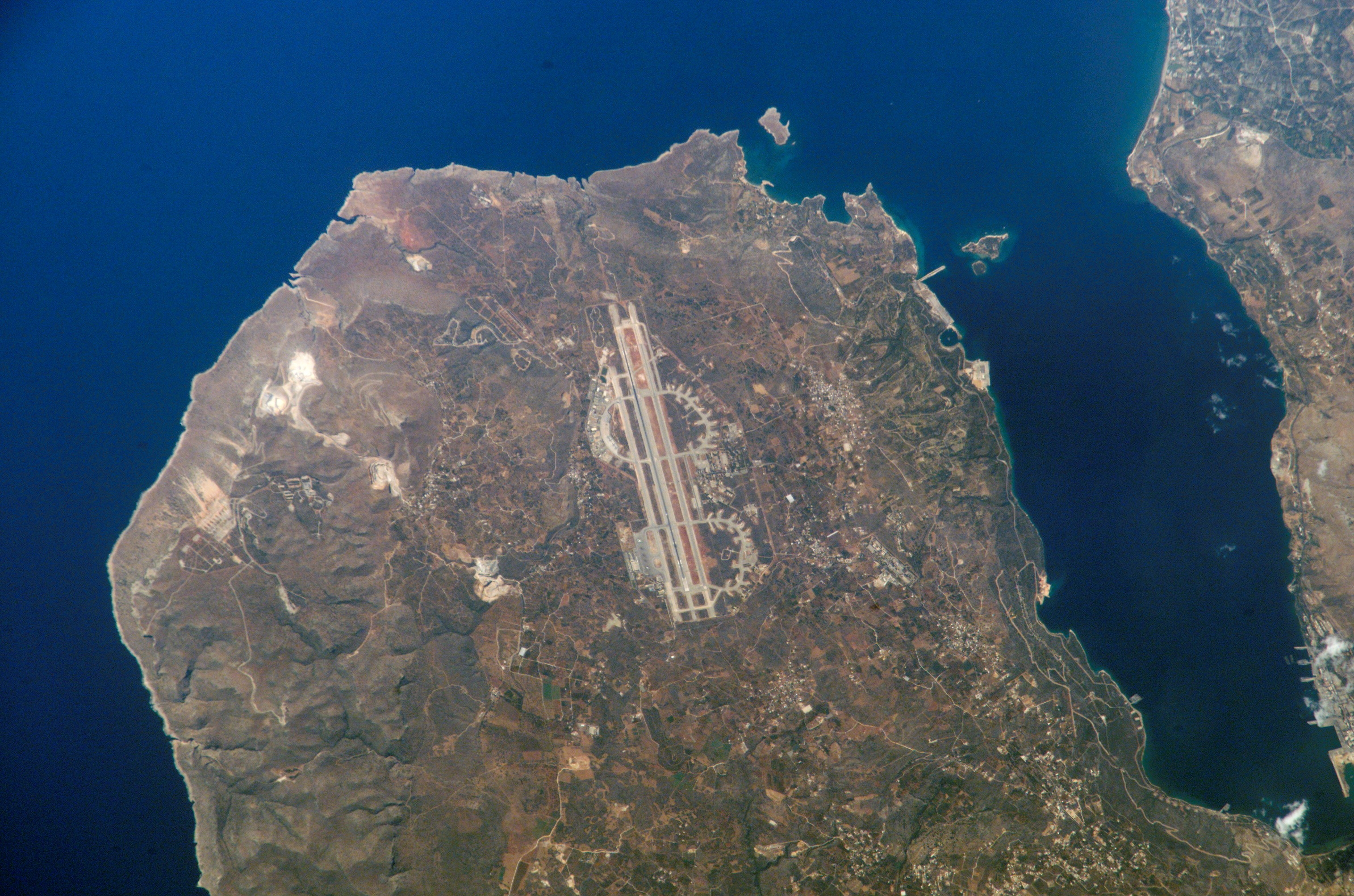 Mission: ISS005 Roll: E Frame: 7554 Mission ID on the Film or image: ISS005 Country or Geographic Name: CRETE Features: SOUDA AIRPORT Center Point Latitude: 35.5 Center Point Longitude: 24.0 (Negative numbers indicate south for latitude and west for longitude) Image Science and Analysis Laboratory, NASA-Johnson Space Center. "The Gateway to Astronaut Photography of Earth." (10/04/2009 12:40:00) . Send questions or comments to the NASA Responsible Official at Curator: Earth Sciences Web Team Notices: Web Accessibility and Policy Notices, NASA Web Privacy Policy